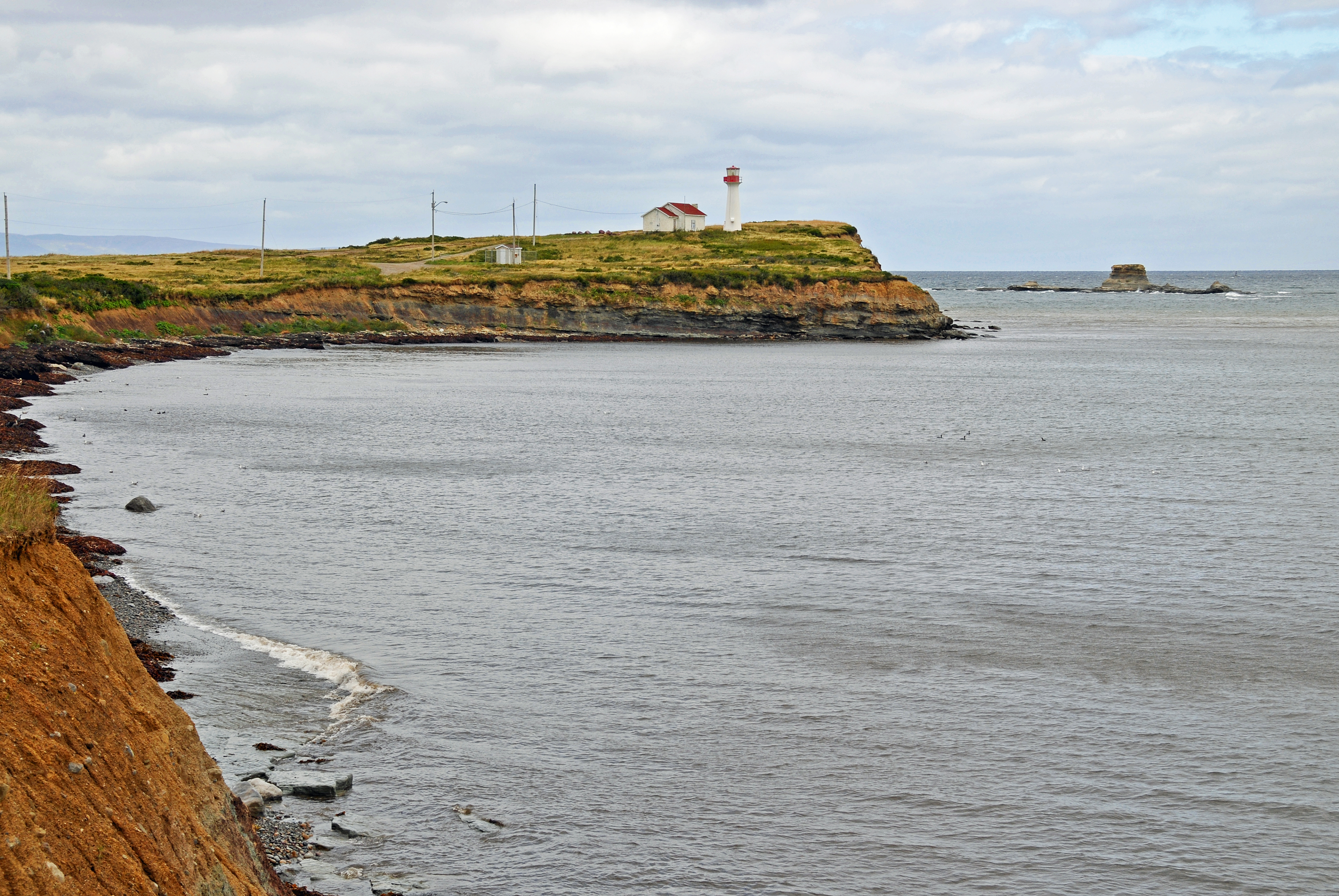 Point Aconi Lighthouse. The first lighthouse was built here in 1874. The existing light station was built in 1989. The tower is 11.6 meters (38ft) high, light height: 25.6 meters (84ft) above water level. It is a white circular, fiberglass tower, with a red lantern. This light is located on High Point, 1.6 kilometers (1mi) south of Point Aconi. Standing: This light is still standing. Operating: This light is operational Year began and lit: 1989 Tower Height:11.58 meters (38ft) high. Light Height: 25.6 meters (84ft) above water level.